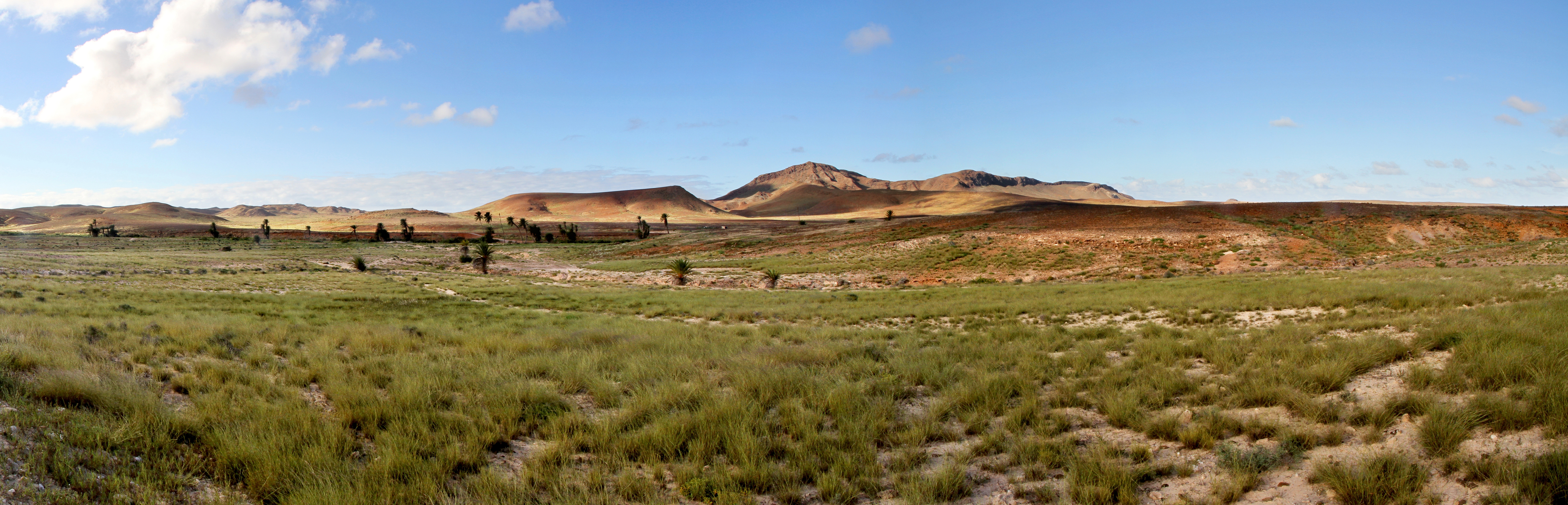 A view in northern Boa Vista in 2010 December. Abrolhal mountain (289 m, center) as seen from the south. Joao Galego is the nearest village to the southeast from the photograph spot.